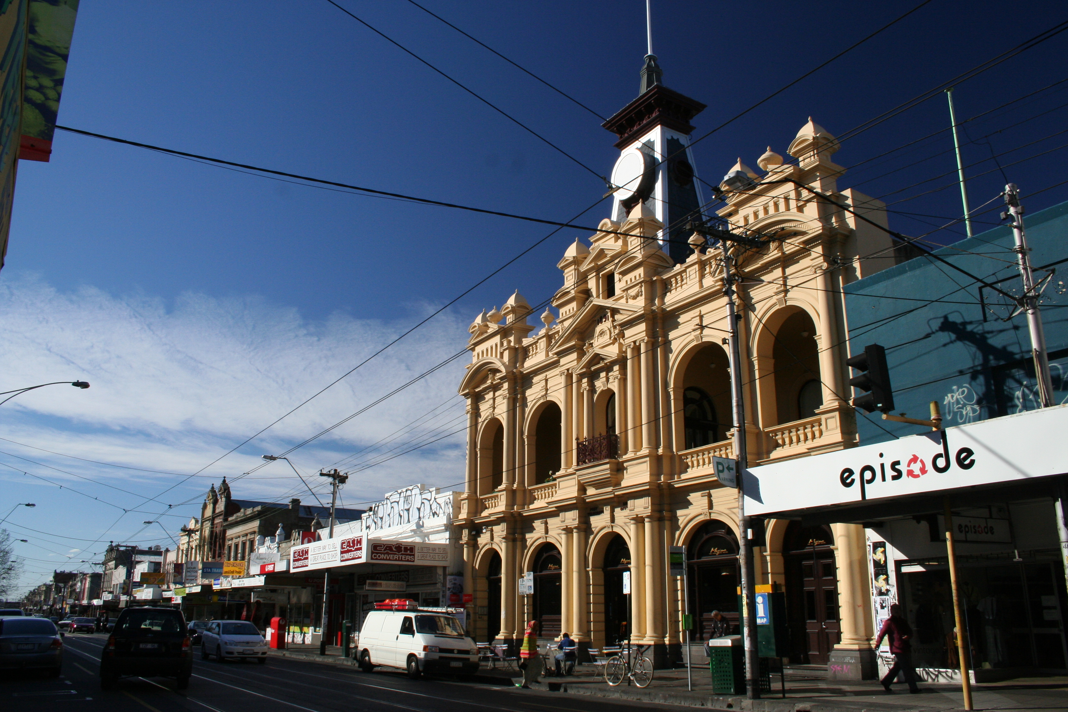 Smith Street, Fitzroy, Victoria, Australia with the old post office in the foreground